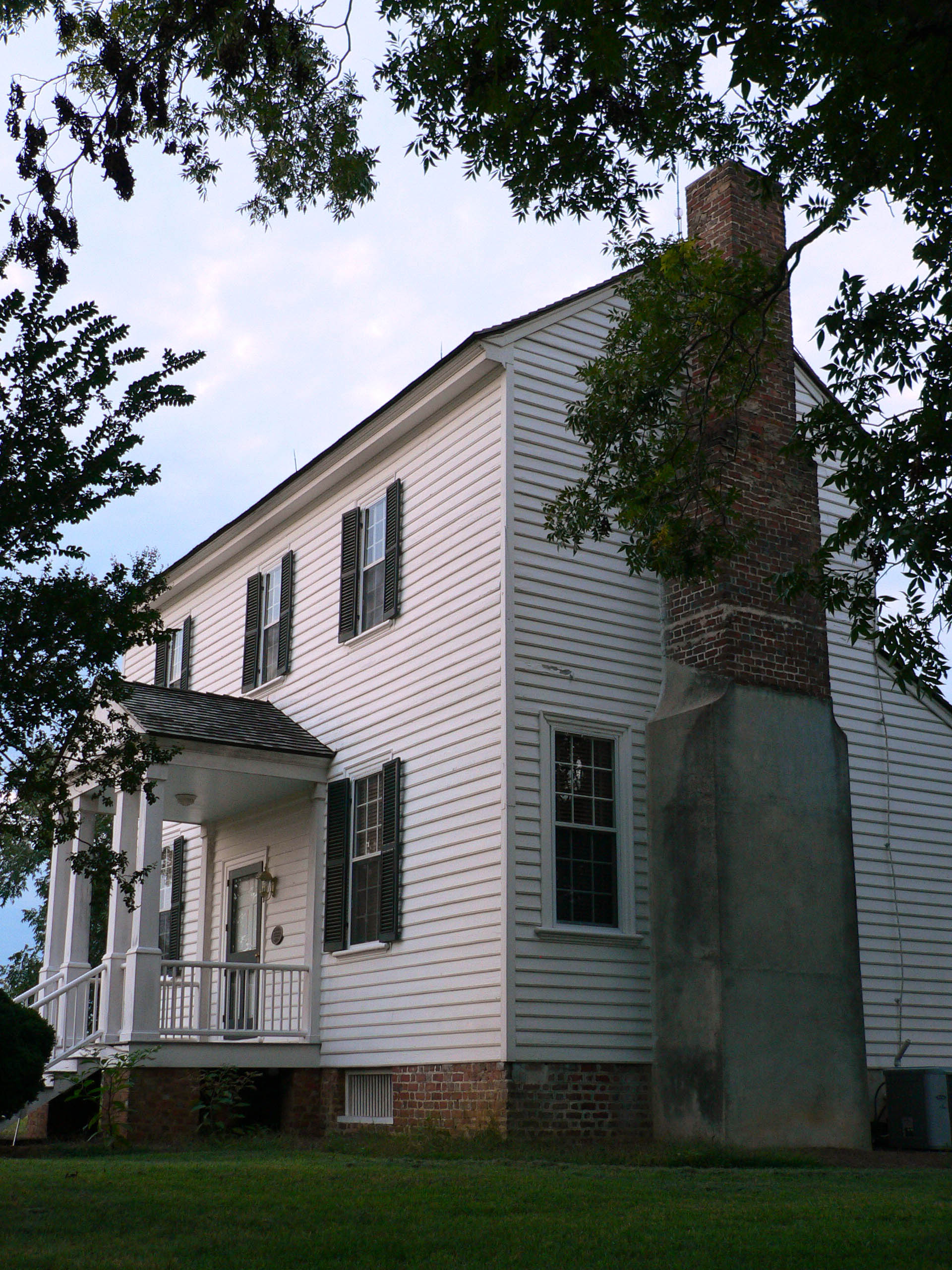 Beaver Dam